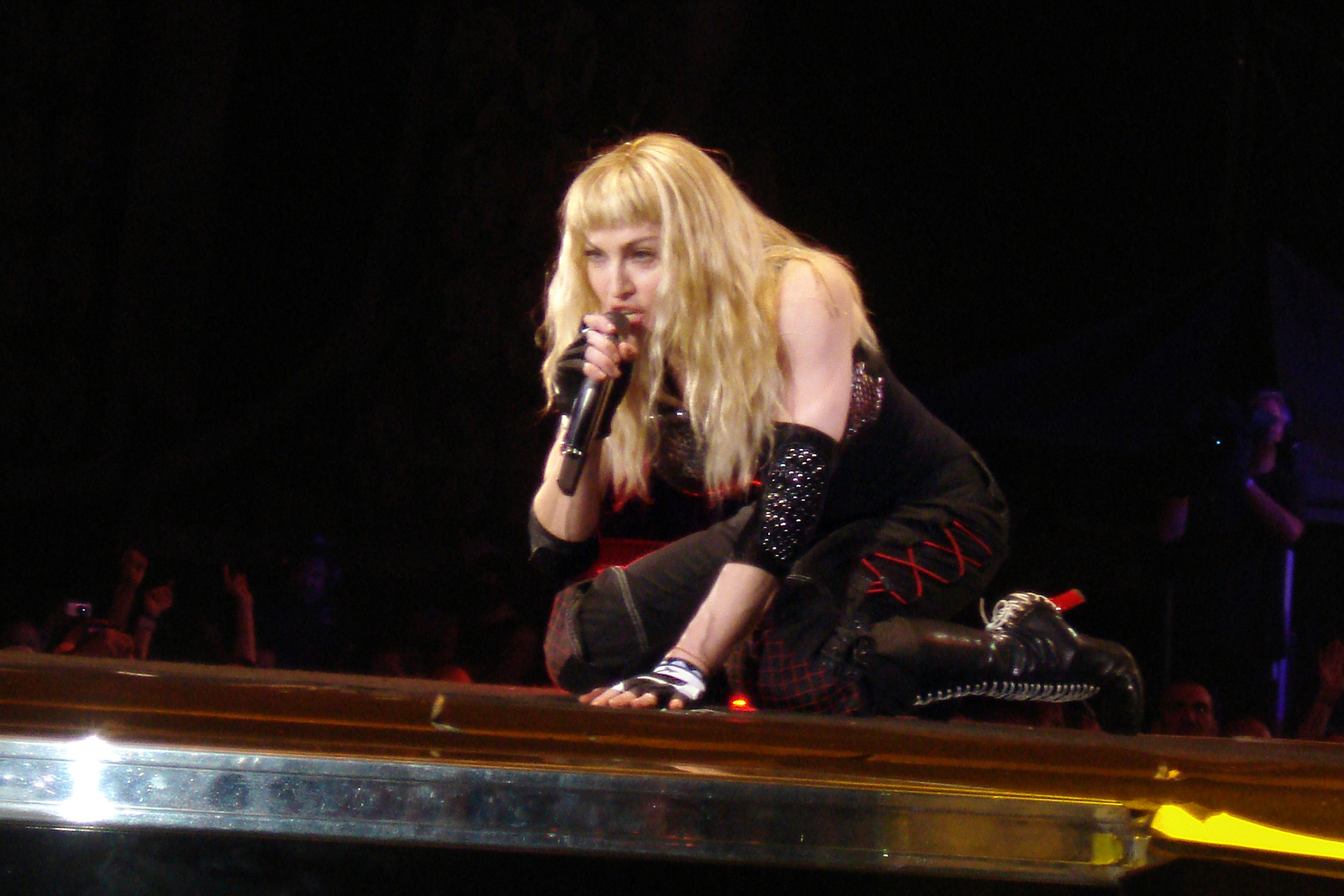 Madonna during her concert in Werchter, Belgium, as part of the second leg of her Sticky & Sweet Tour on July 11, 2009.